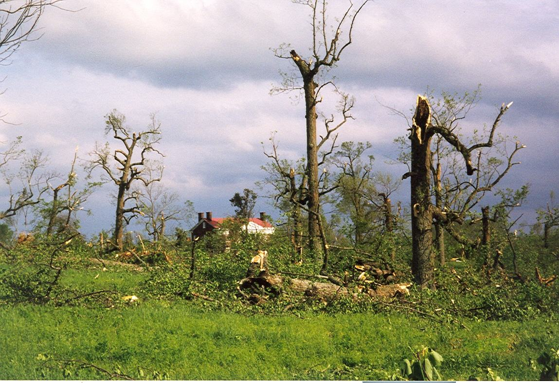 Photo of damage from the w:1998 Nashville tornado outbreak of the Tulip Grove Mansion, part of the Hermitage.